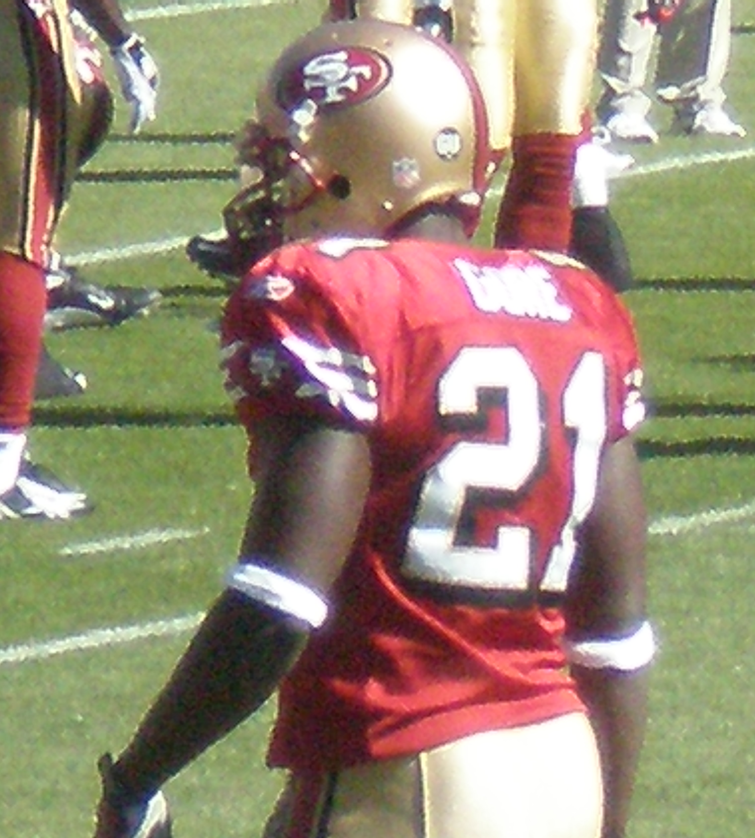 San Francisco 49ers running back Frank Gore warming up on Bill Walsh Field at Candlestick Park prior to a regular season game against the Philadelphia Eagles. The Eagles won 40-26.